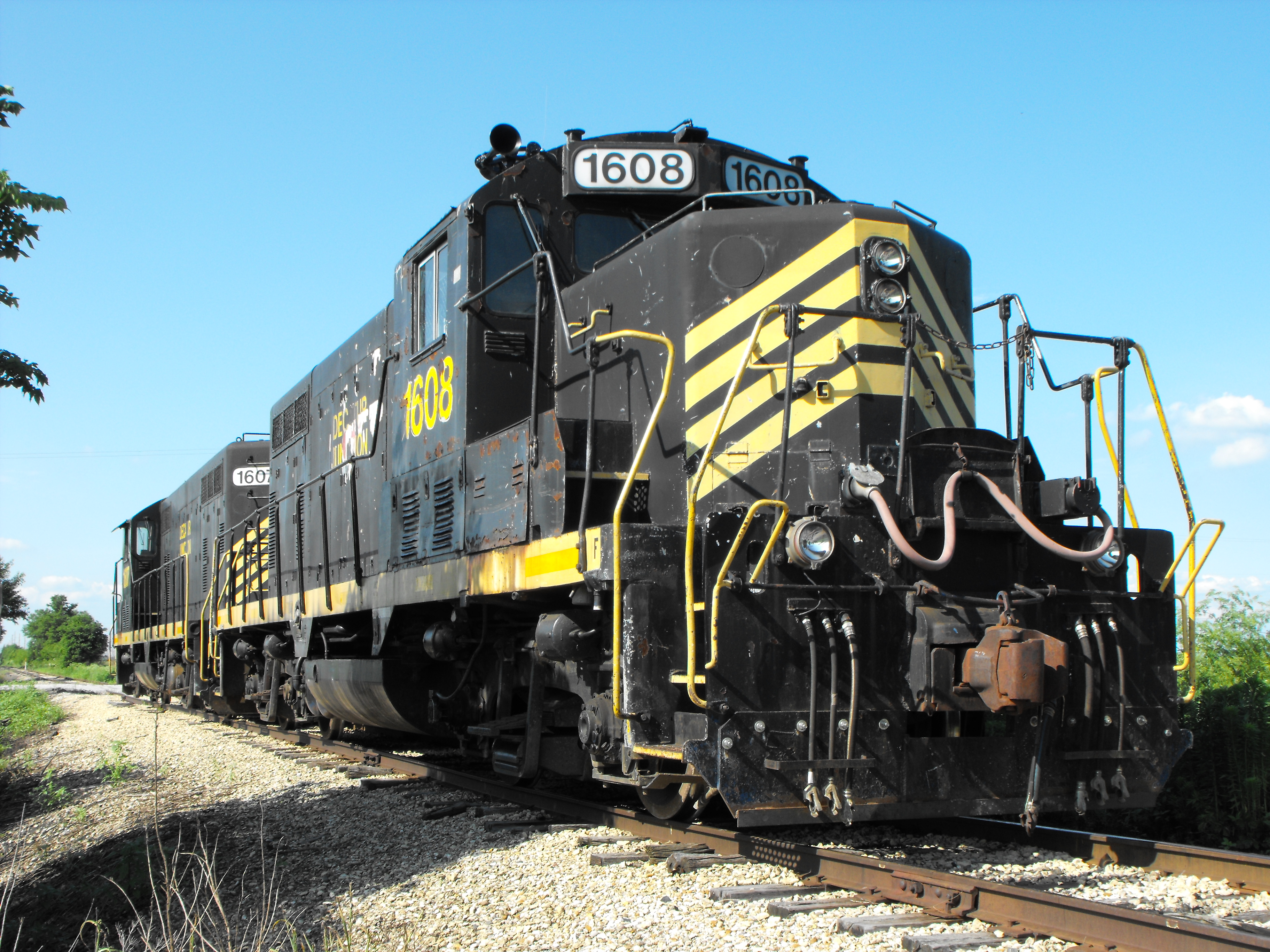 Decatur Junction GP11 #1608